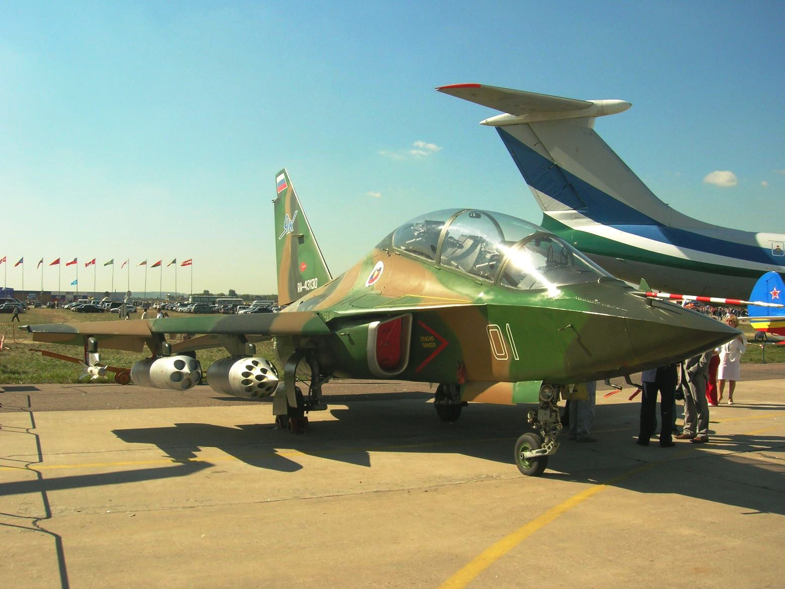 A russian Yakovlev Yak-130 trainer aircraft om the MAKS airshow.